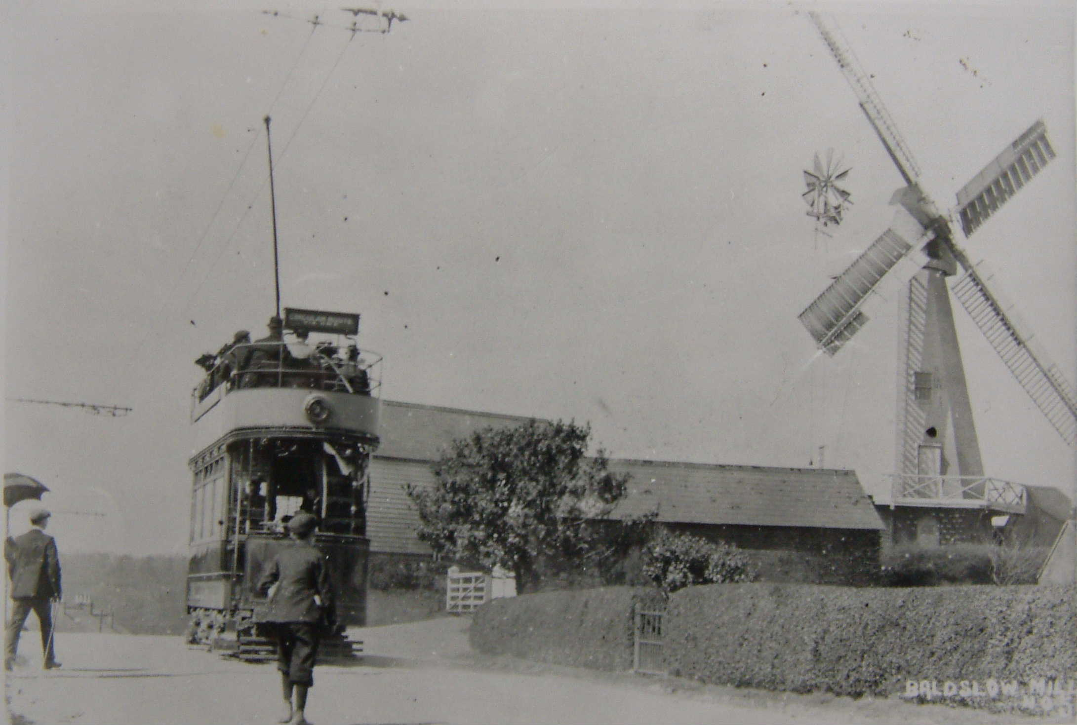 Baldslow Mill with a tram of the Hastings Tramways system visible.